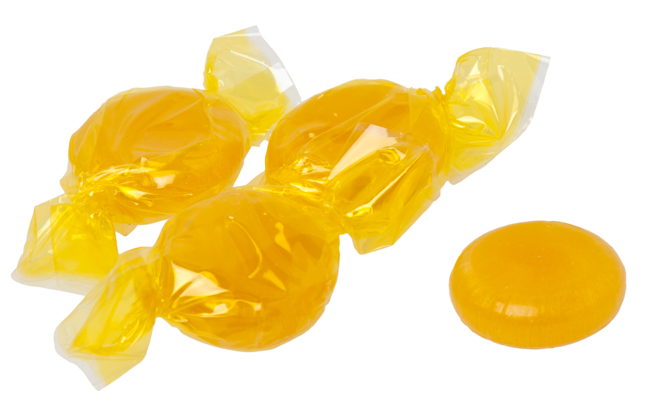 Butterscotch hard candies. Commonly sold in America, these are penny candies wrapped in a nondescript yellow cellophane wrapper.